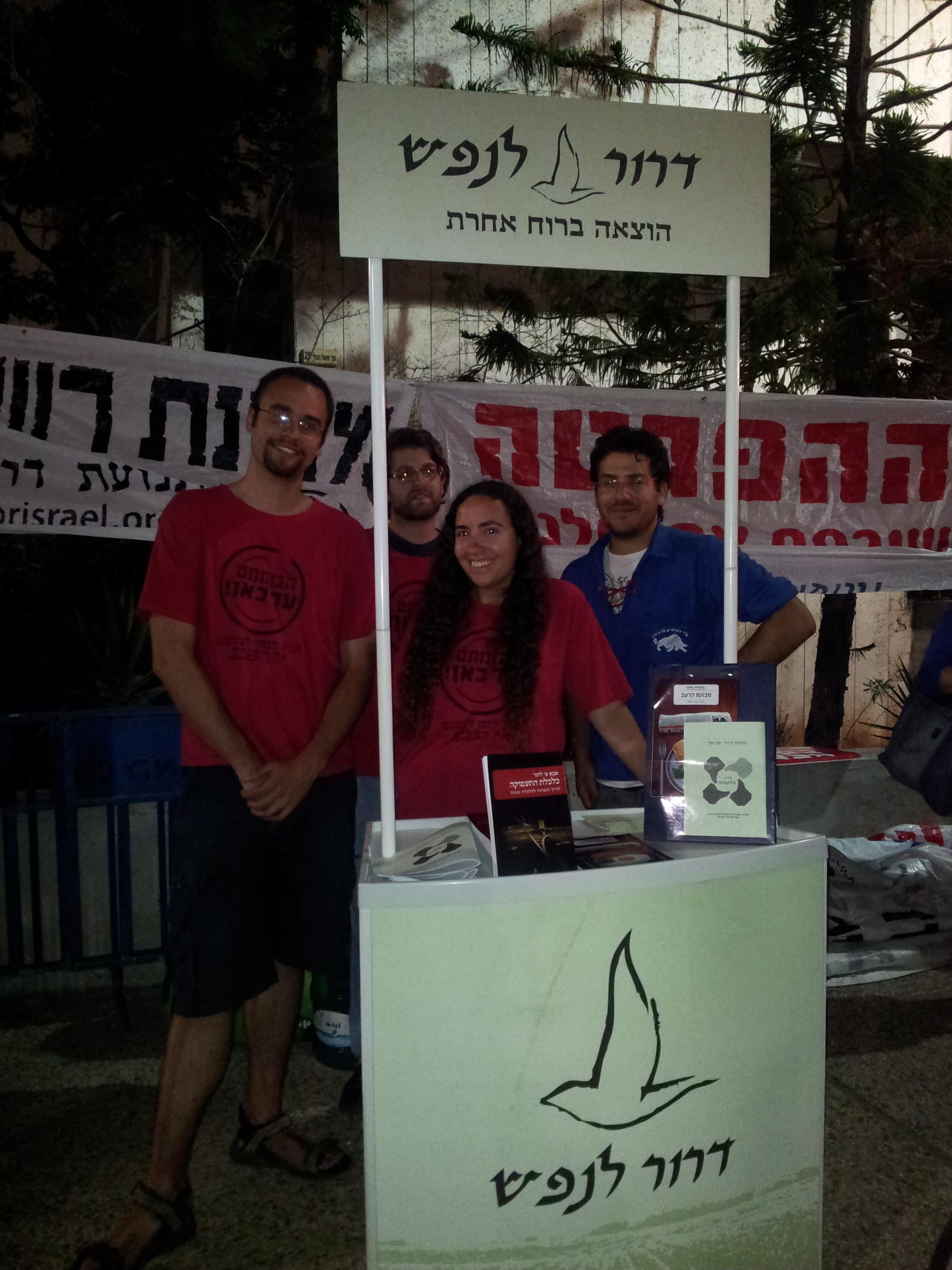 Dror Israel movement's publishing house "Dror La'Nefesh" in protest against economic problems in Israel, 2012